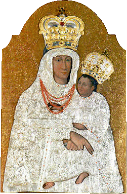 Obraz Matki Bożej Swojczowskiej